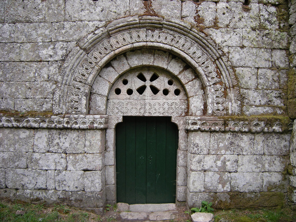 Portal of the Church of the Monastery of Santa Maria de Pitões das Júnias, Montalegre, Portugal